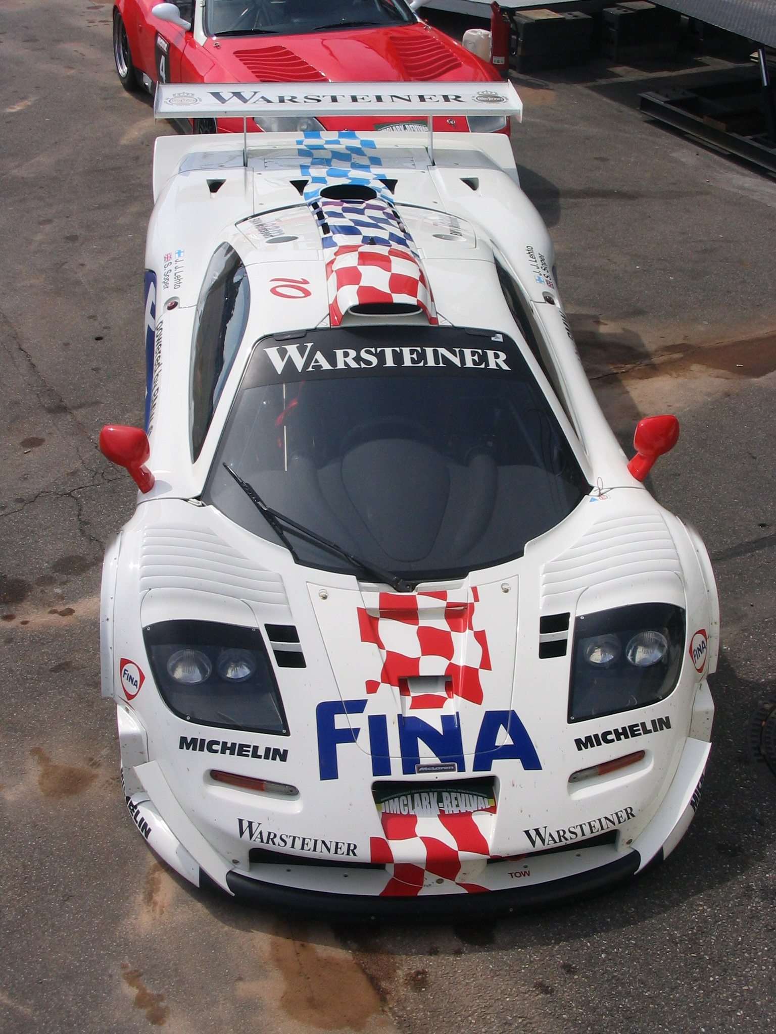 McLaren F1 GTR standing in the Parc Fermé after winning the second race of the GT90's revival 2008 at the Jim Clark Revivial 2008